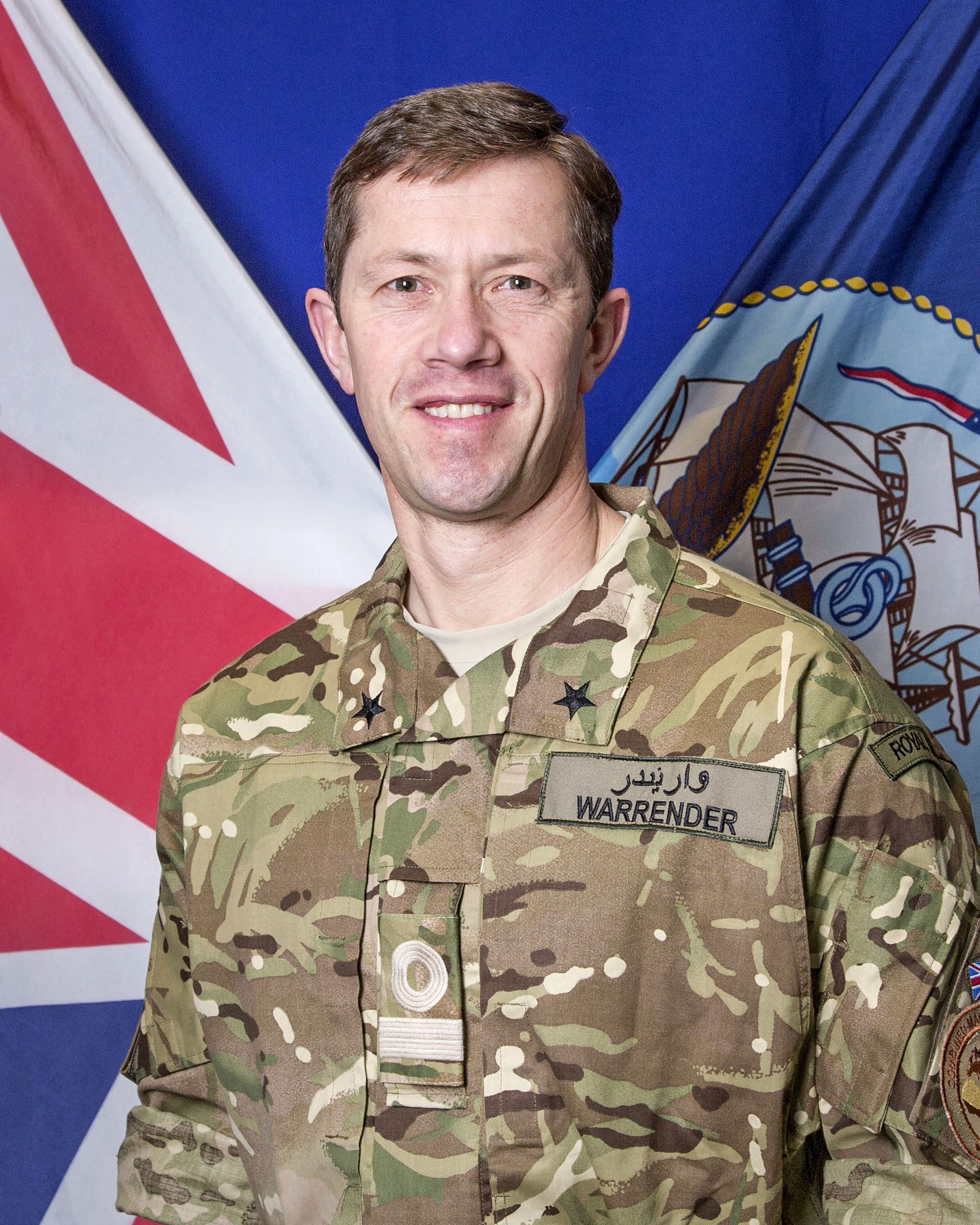 Commodore William Warrender, United Kingdom Maritime Component Commander and Deputy Commander, Combined Maritime Forces